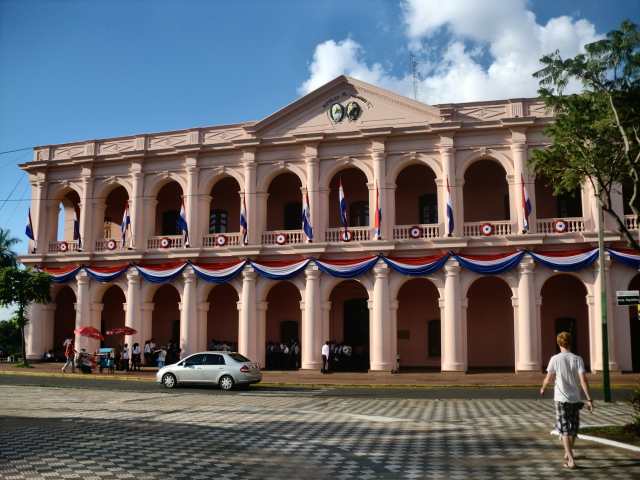 Cabildo in Asunción's Downtown